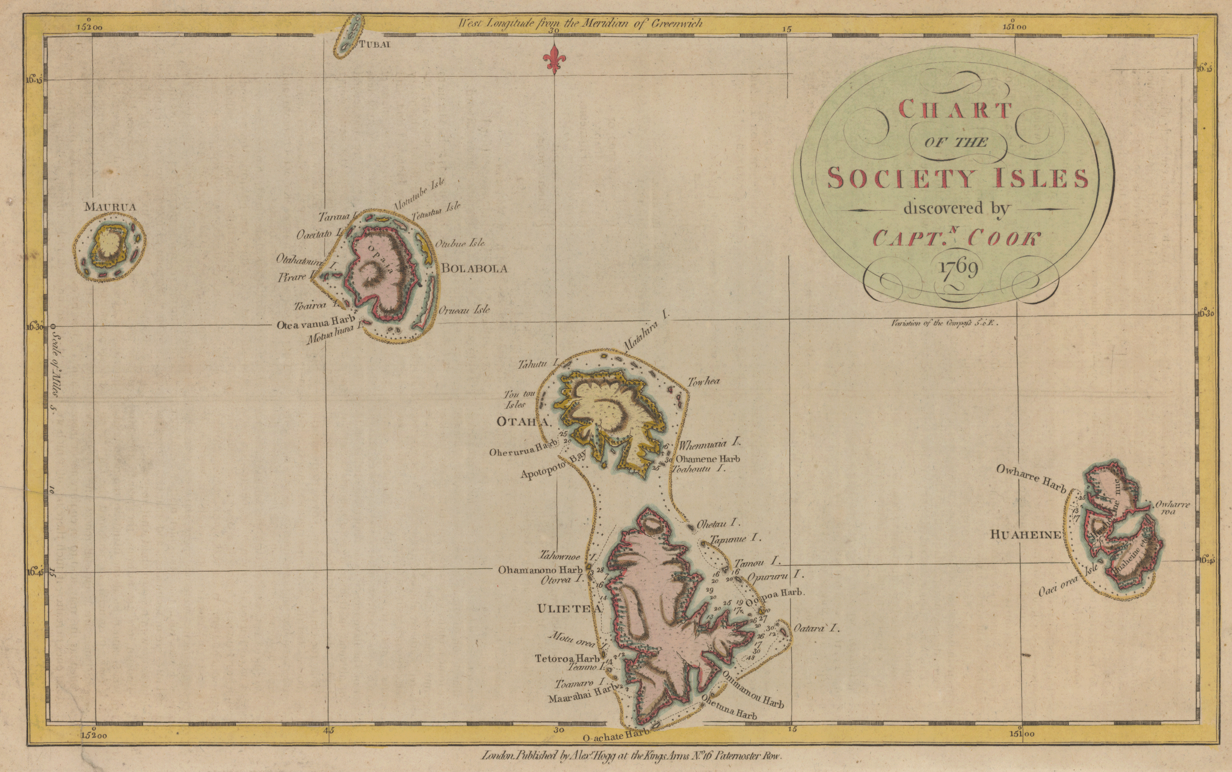 historic map of the western Society Islands (Leeward Islands = Îles sous le Vent), French Polynesia, Eastern Pacific Ocean, after James Cook's first voyage